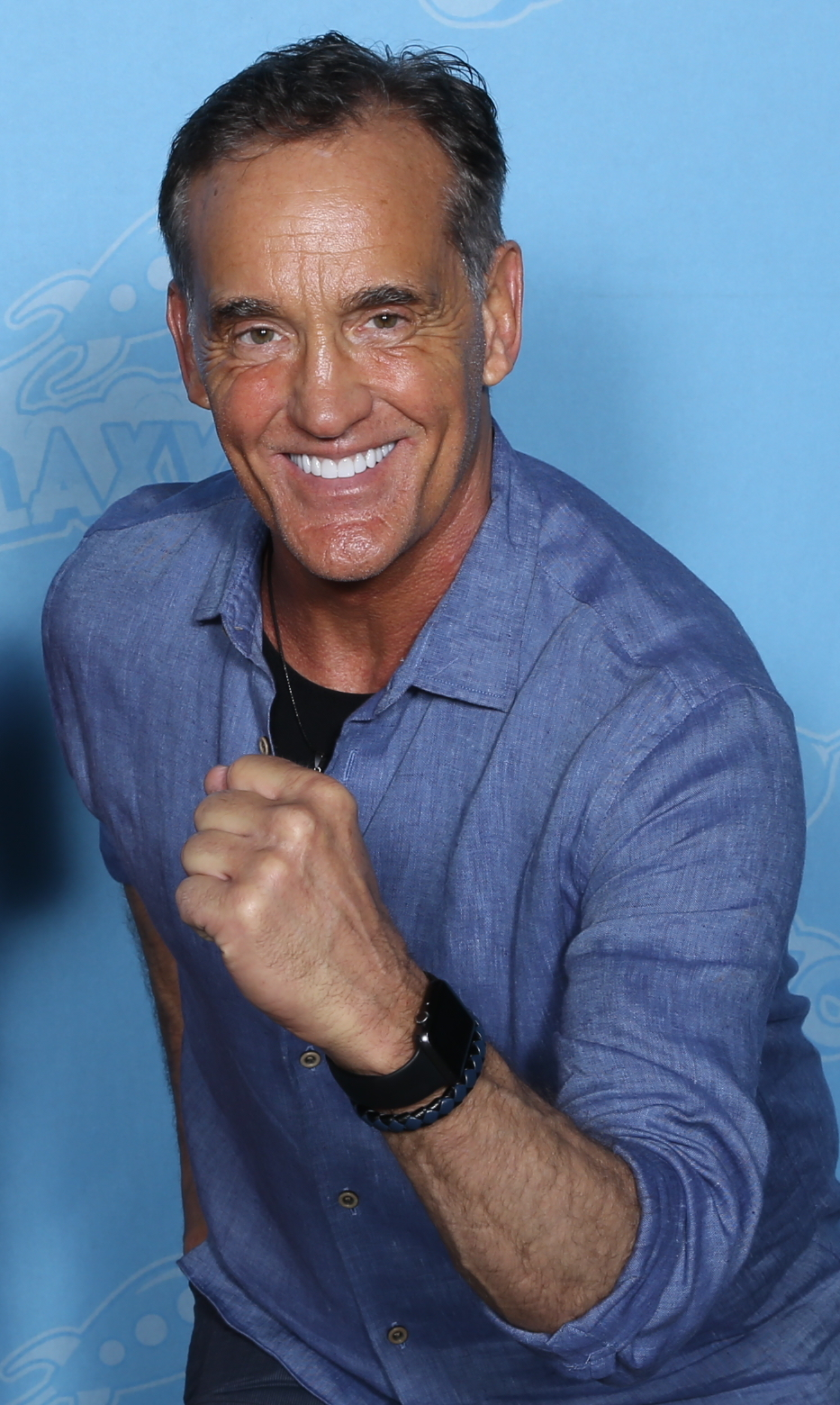 John Wesley Shipp at GalaxyCon Richmond in 2019